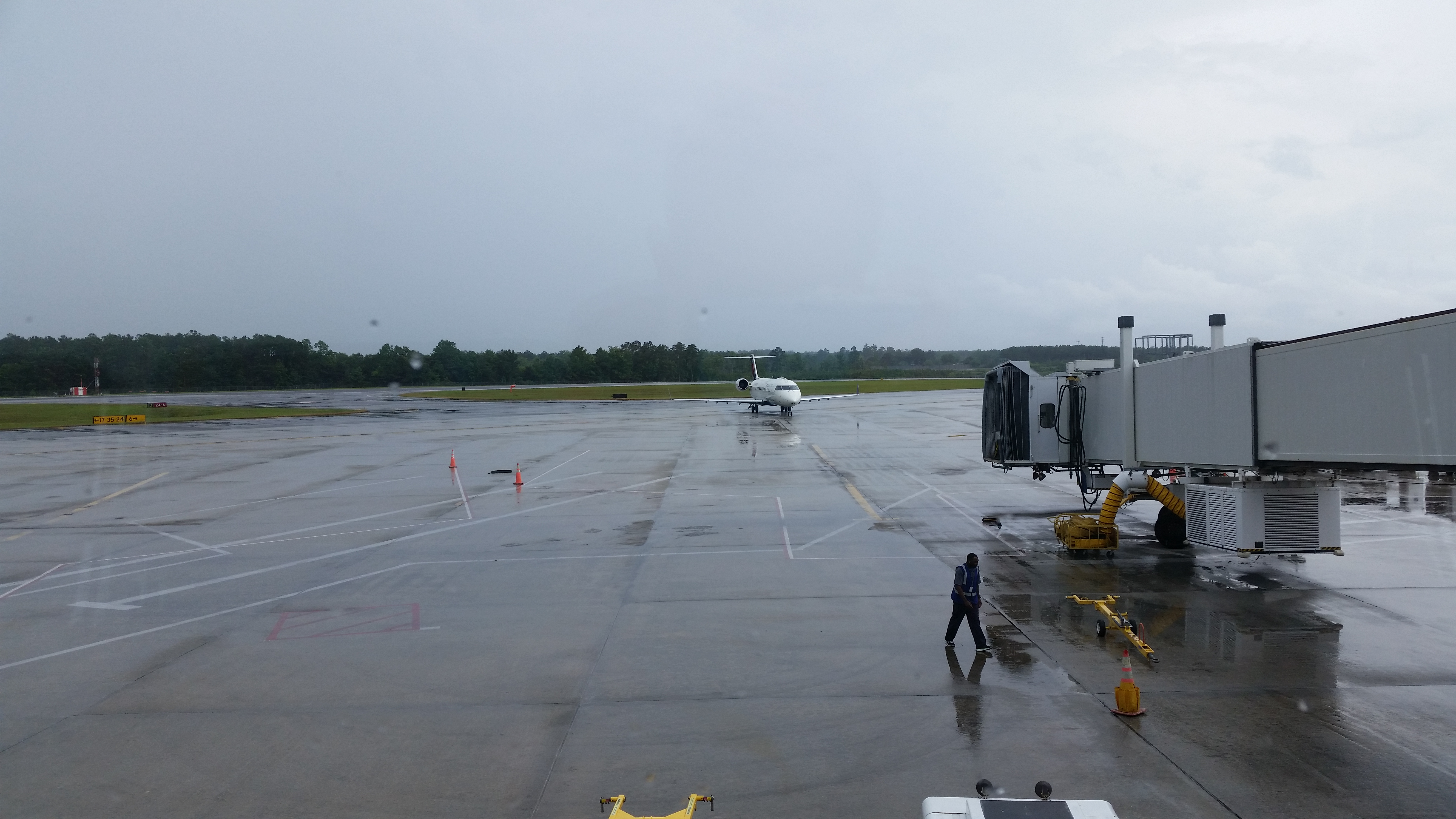 An airplane approaches the terminal at Wilmington International Airport on a rainy and wet day.